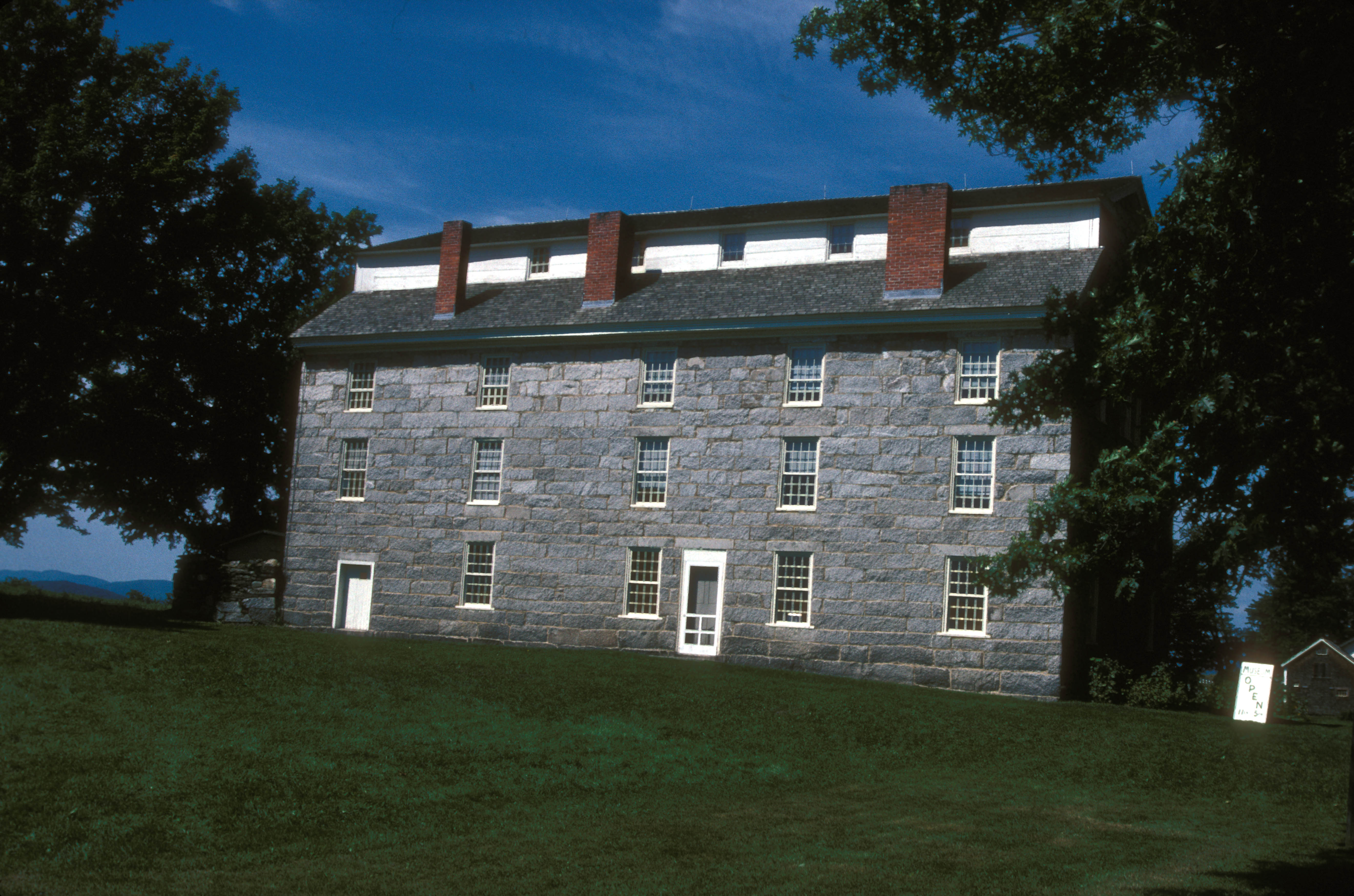 1836 FOUR-STORY GRANITE BUILDING BUILT BY REVEREND ALEXANDER TWILIGHT WAS USED AS A DORMITORY FOR STUDENTS AT THE ORLEANS COUNTY GRAMMAR SCHOOL